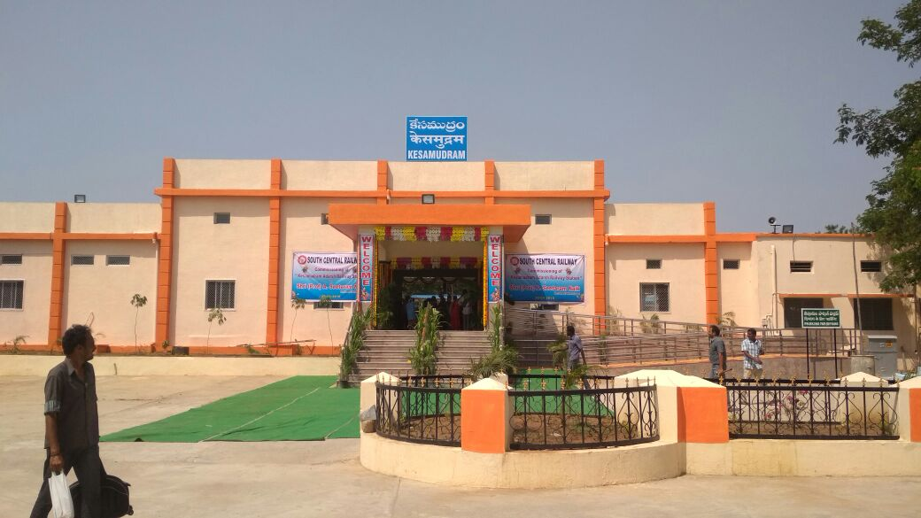 kesamudram Railway station inauguration 2018